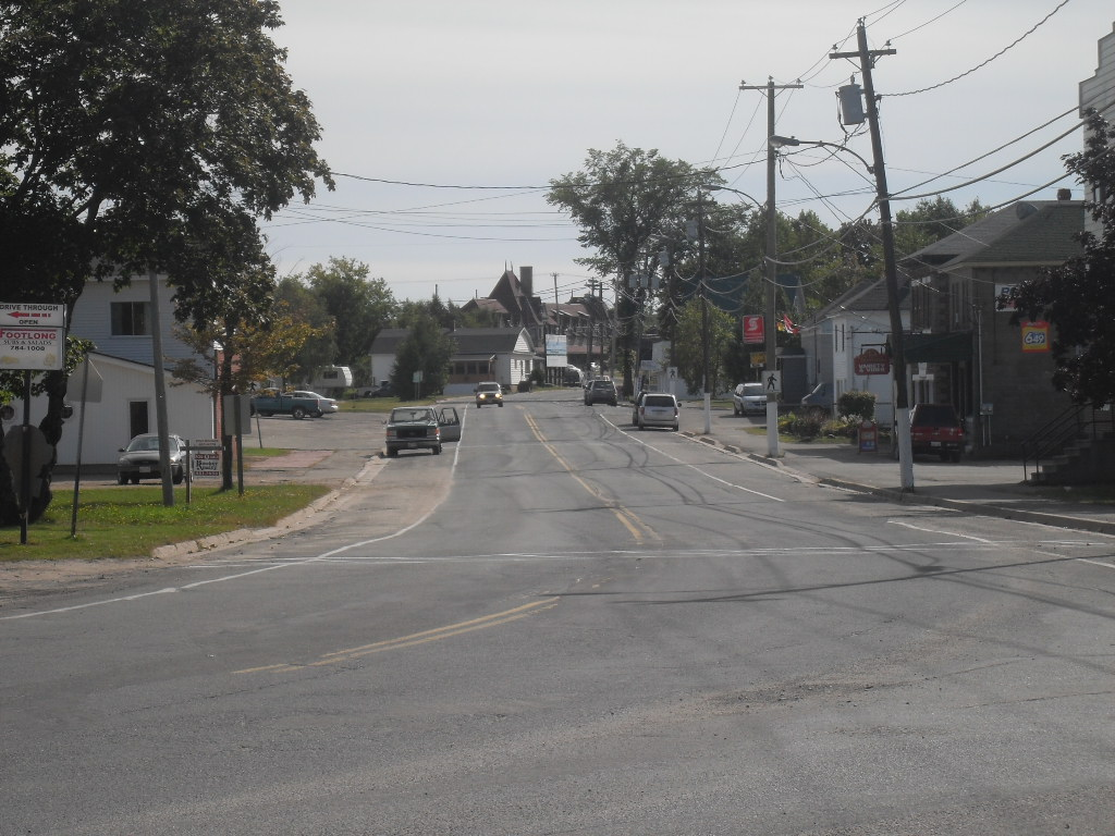 Saunders Road (main street) in McAdam, New Brunswick with the McAdam railway station in the background and the library/village office on the left.